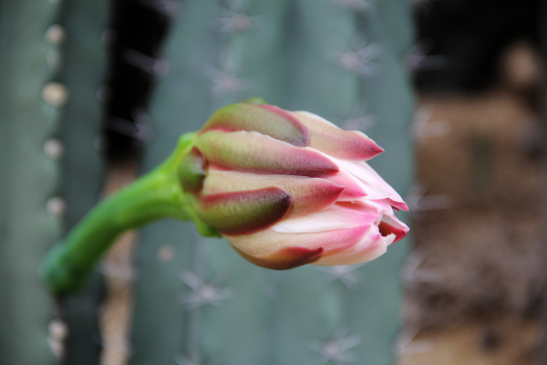 We love live in sand and sunny environment, but you'd better water us frequently when we are in growing seasons. We can't bear temperature lower than 32 °F (0 °C). Mostly, gardeners get our new plant by stem cutting, but sometimes they use our seeds too. If you do by stem cutting, you must keep the temperature at 68 °F ~ 86 °F (20 °C~30 °C).